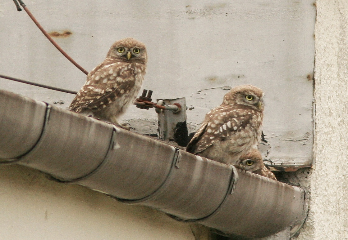 Athene noctua, Warsaw, Poland 2007